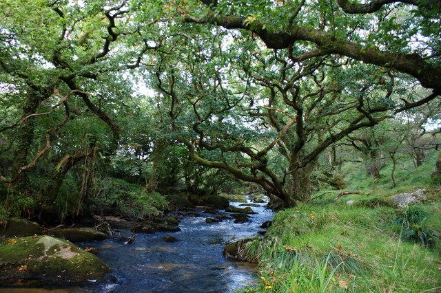 De Lank River upstream of the quarries